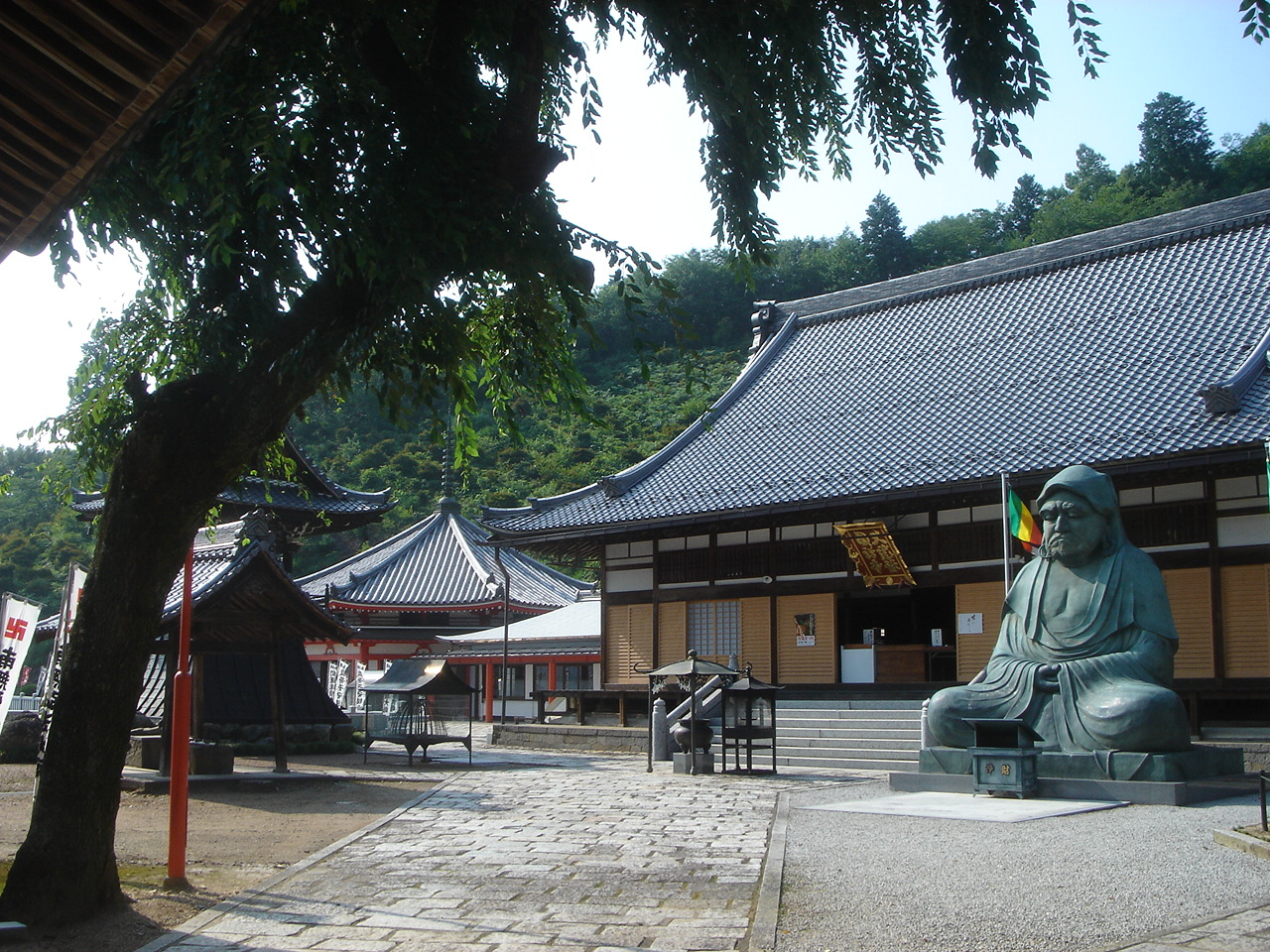 Dairyuji(Temple) in Gifu Pref(大龍寺 (岐阜市)),Gifu,Gifu,Japan(岐阜県岐阜市)で撮影